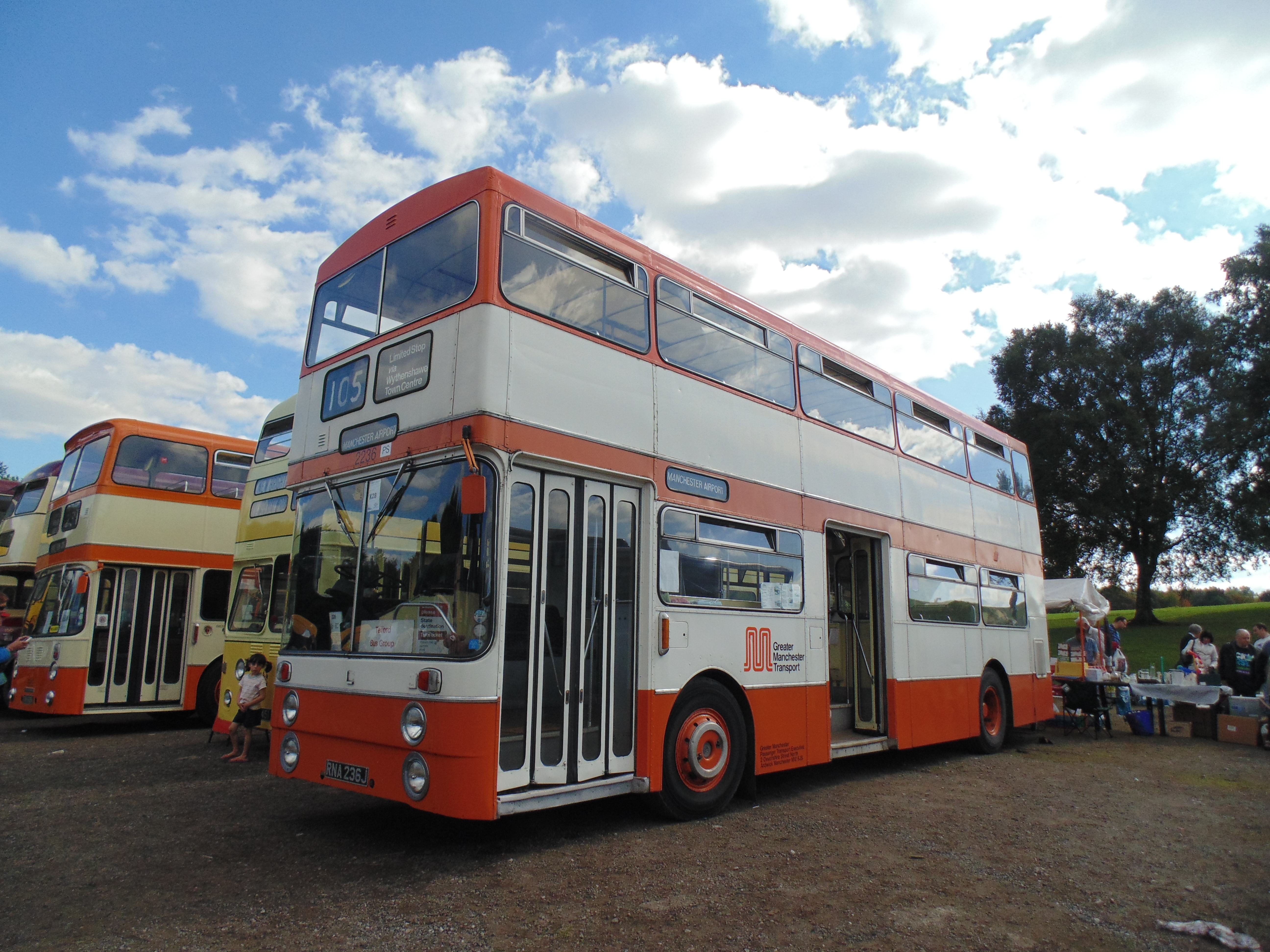 Taken on Sunday 7th September during the annual Trans Lancs Rally event